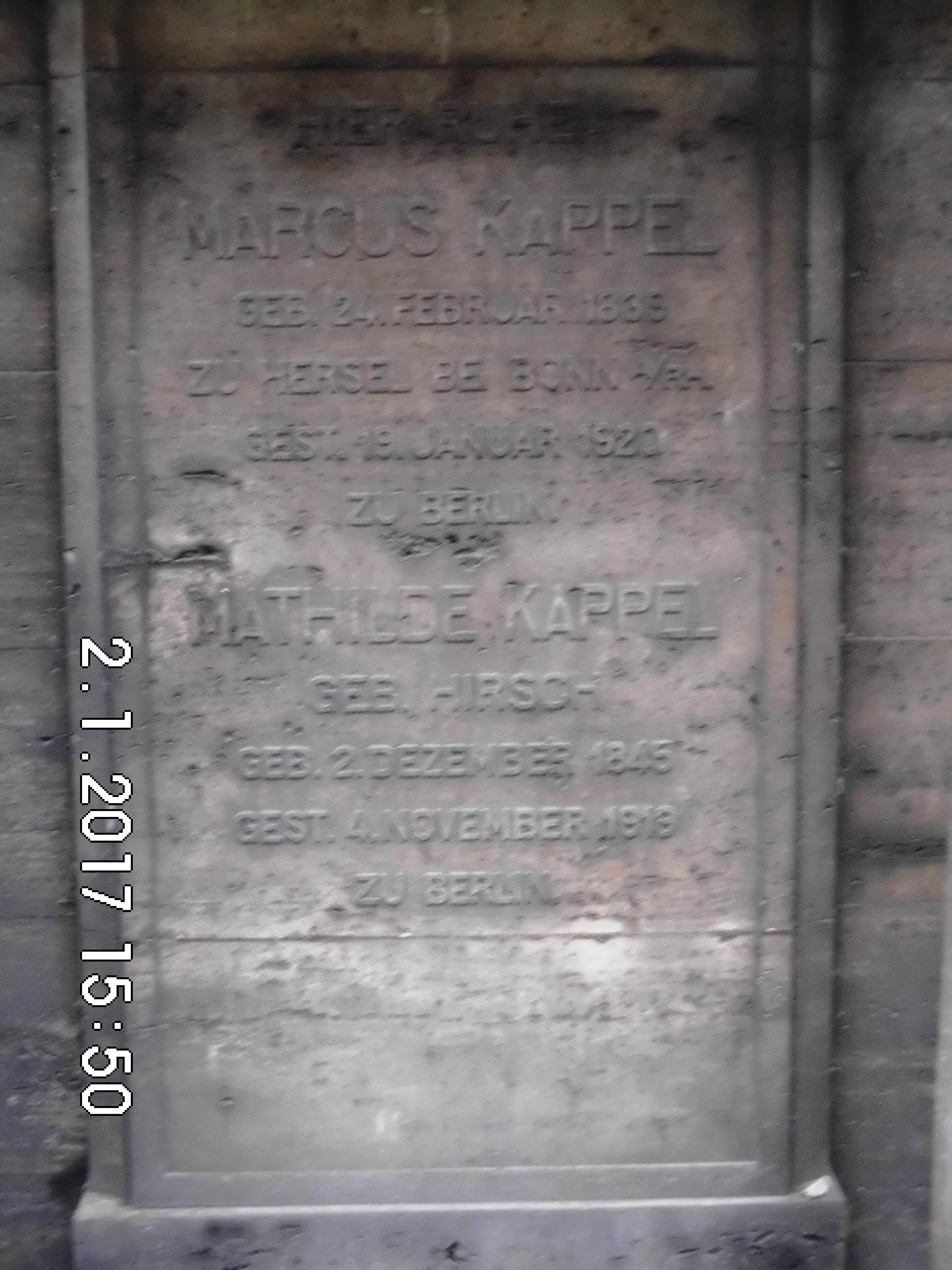 Matzevah of Marcus Kappel and Mathilde née Hirsch, Schönhauser Allee Cemetery, Berlin